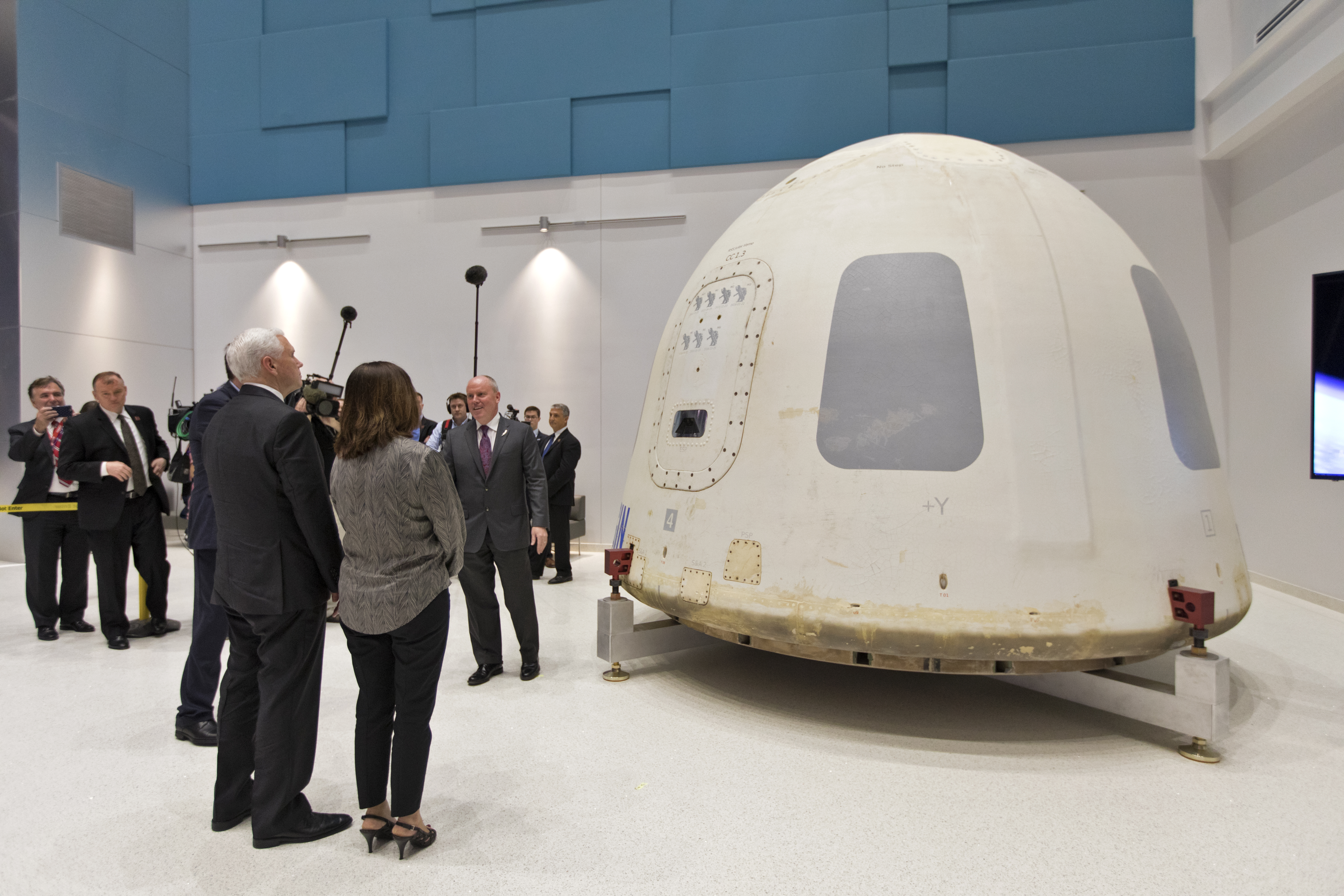 Vice President Mike Pence, second from right, and his wife, Karen Pence, tour the Blue Origin Manufacturing Facility near NASA's Kennedy Space Center in Florida, on Feb. 20, 2018. Vice President Pence viewed the flown New Shepard Booster and Crew Capsule. The Crew Capsule, in view, flew seven times, including a pad abort test and an escape test at maximum dynamic pressure. During his visit, Pence will chair a meeting of the National Space Council on Feb. 21, 2018 in the high bay of NASA Kennedy Space Center's Space Station Processing Facility. The council's role is to advise the president regarding national space policy and strategy, and review the nation's long-range goals for space activities.